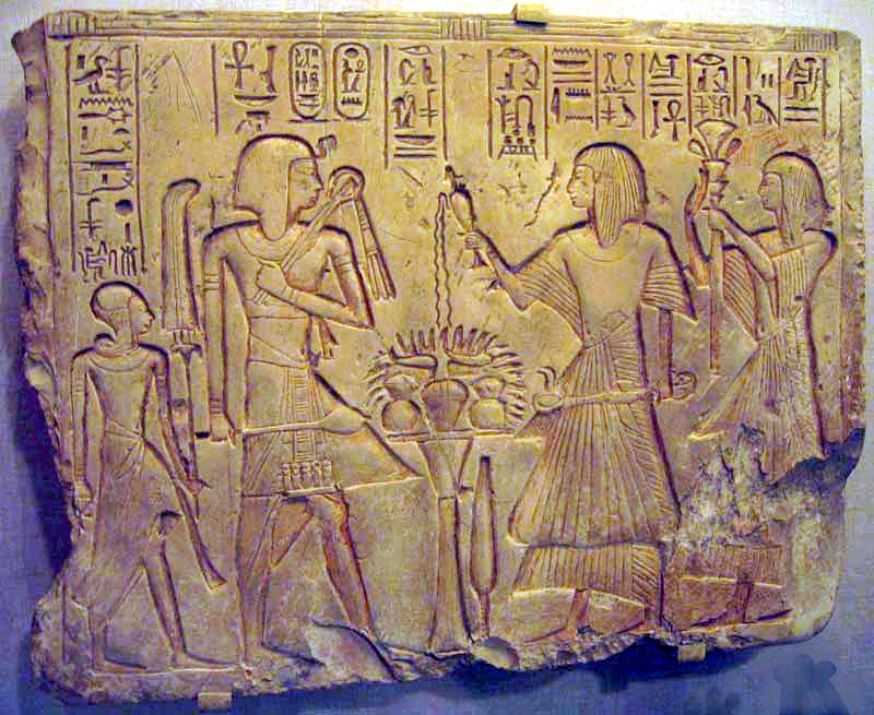 Priests make offerings to Seti I and his son Ramesses